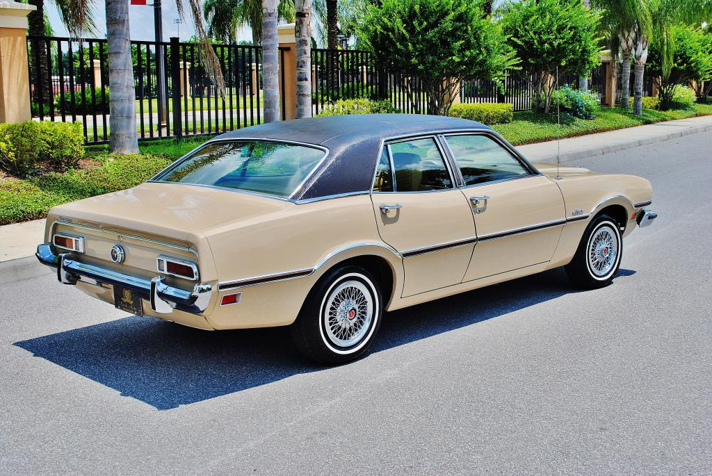 The Ford Maverick was a compact car manufactured from April 1969 to 1977 in the United States, Venezuela (first country outside the States to produce them), Canada, Mexico, and, from 1973 to 1979, in Brazil